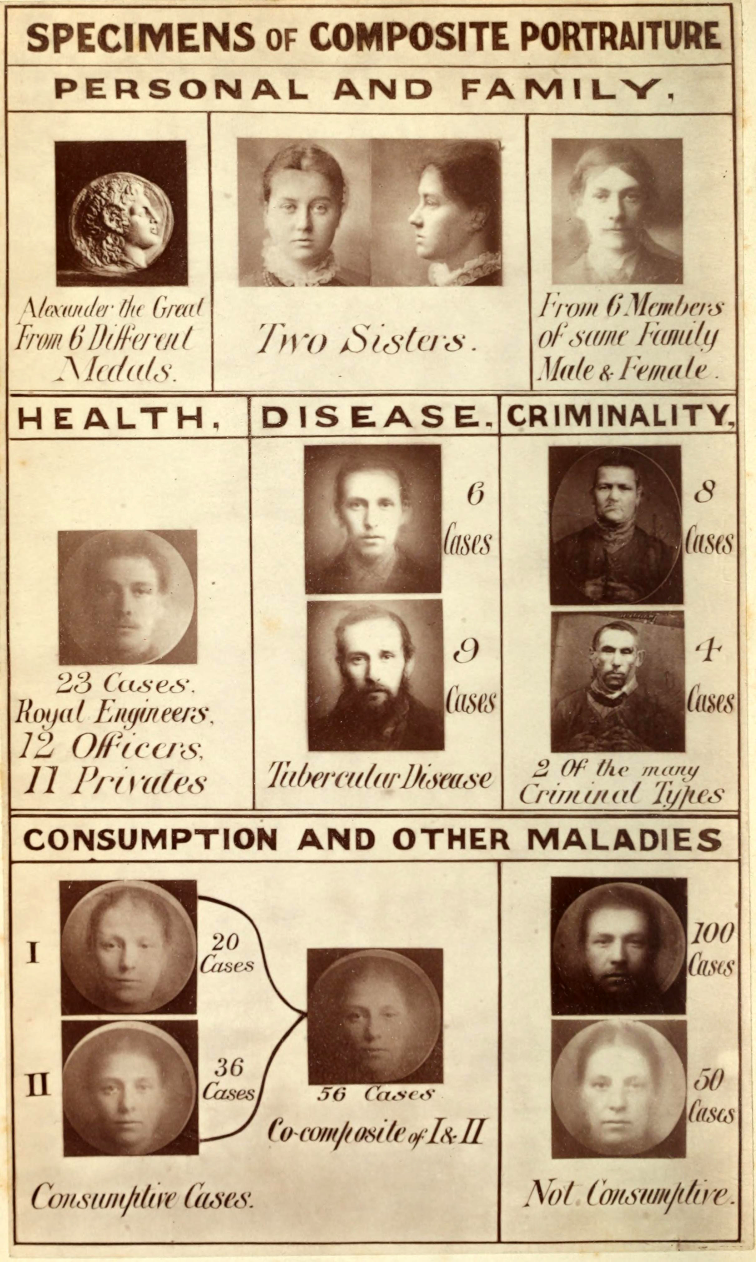 Illustration plates, p.7 of Inquiries into Human Faculty and its Developement